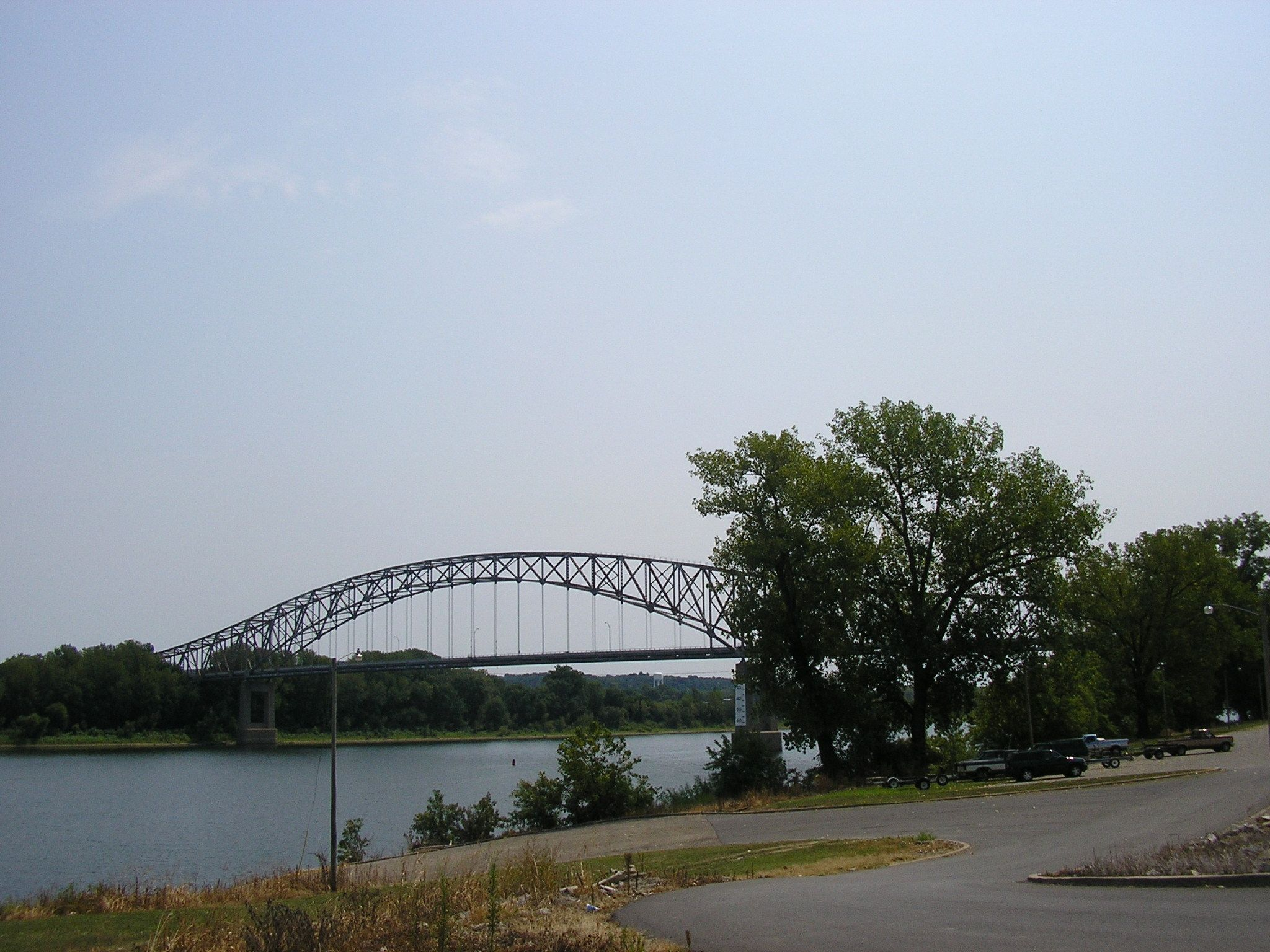 Bob Cummings - Lincoln Trail Bridge over the Ohio River, USA